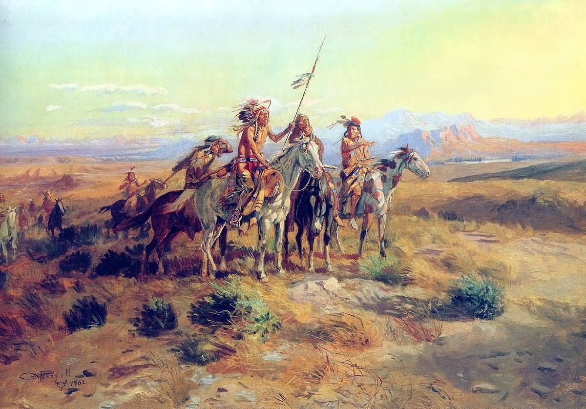 Painting The Scouts by Charles Marion Russell